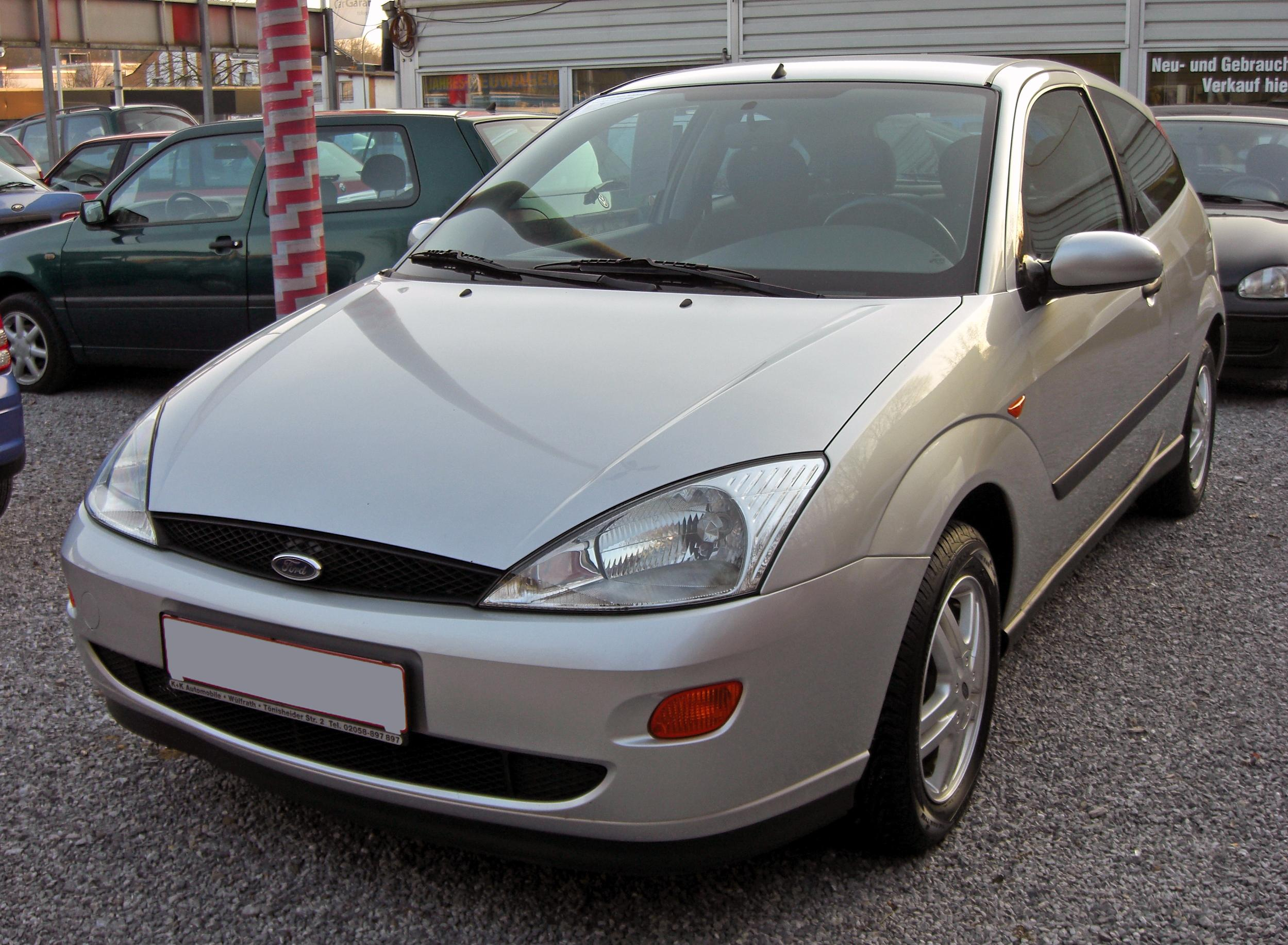 Ford Focus I